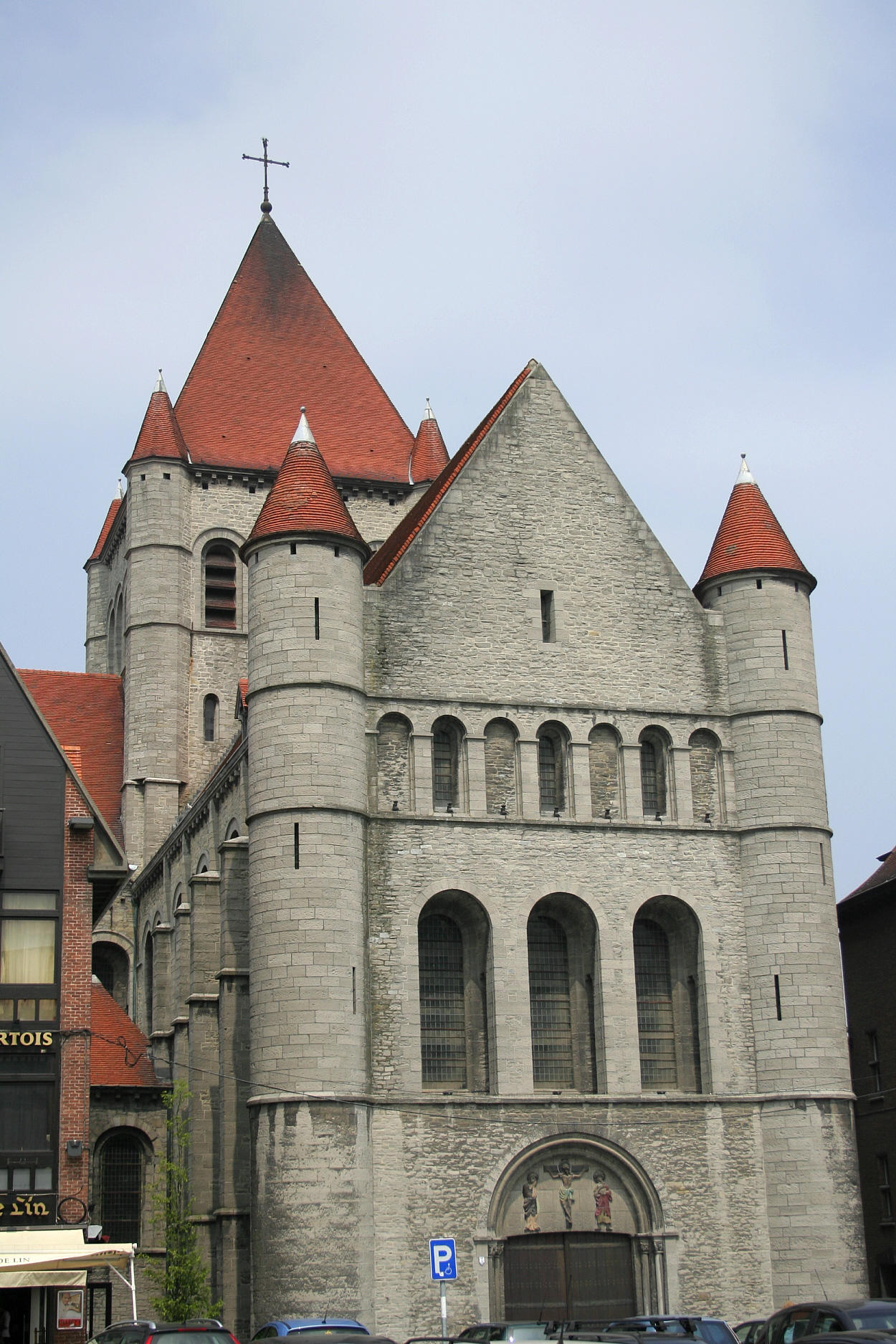 Tournai (Belgium), the St. Quentin church (XII/XIIIth centuries).